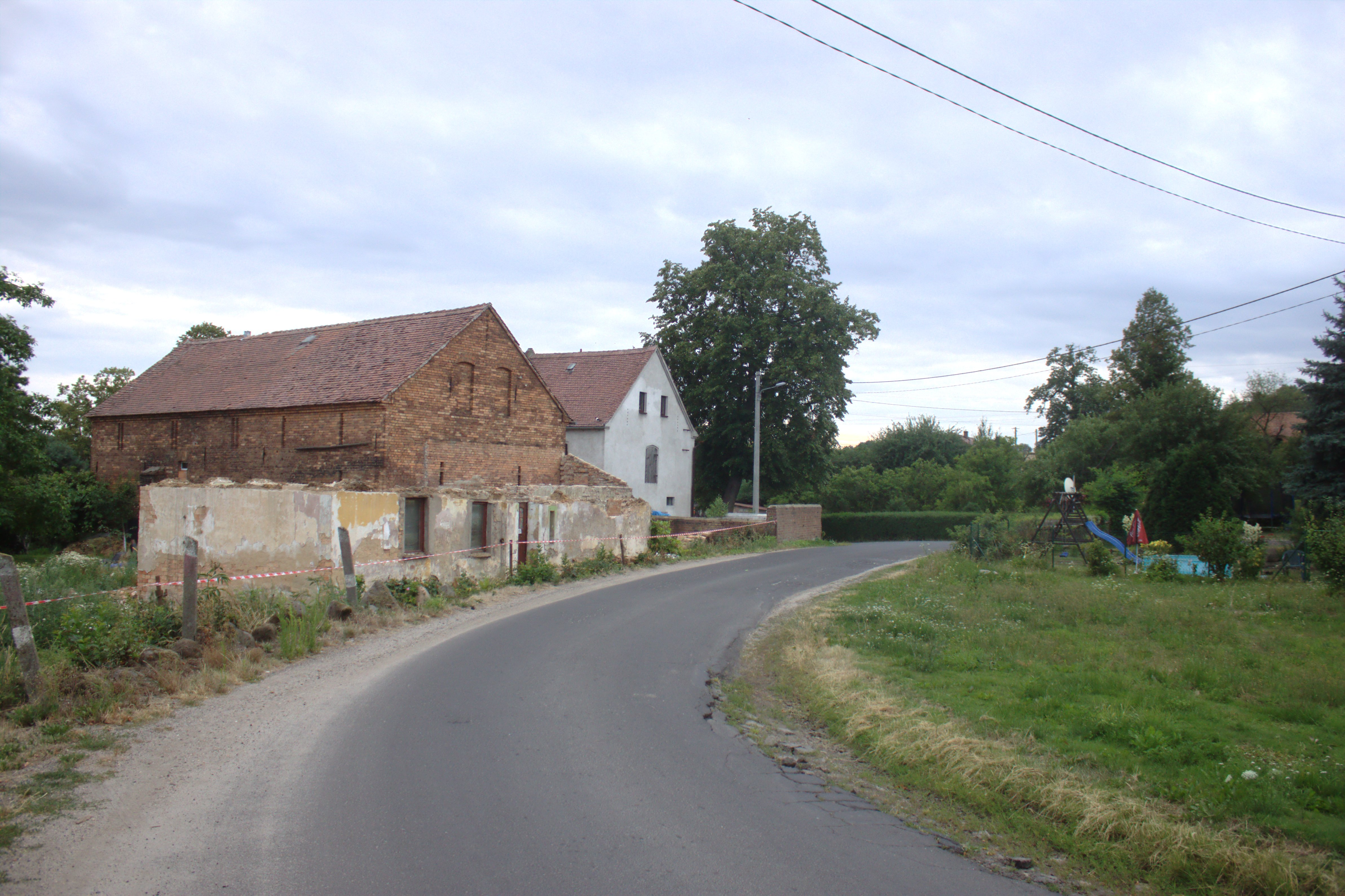 This photograph was created as a part of Wikiexpedition Lower Silesia, a project supported by Wikimedia Poland grant.